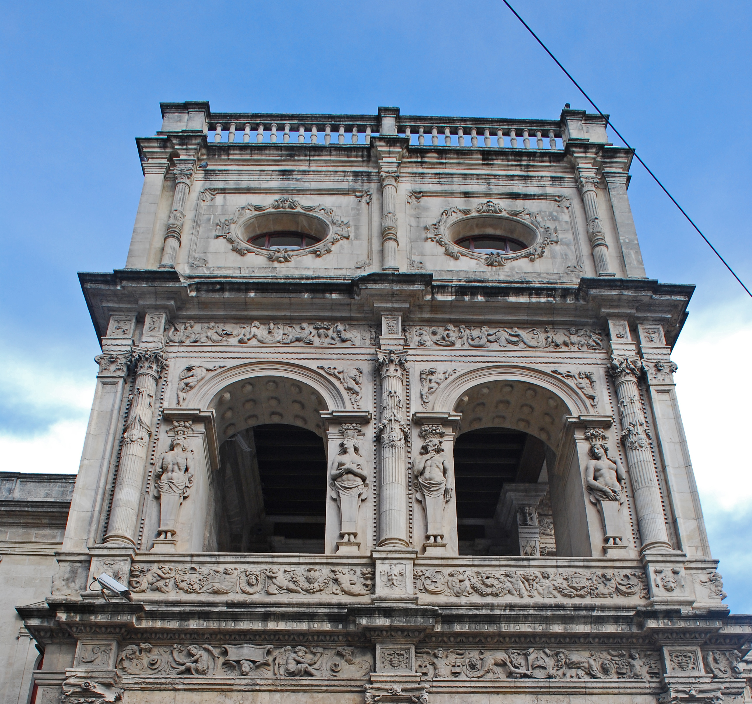 Town hall of Seville